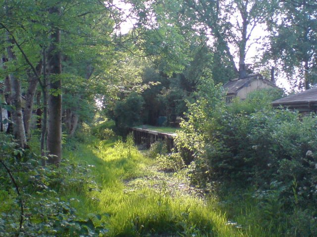 The remains of Dryslwyn Station Closed in 1959, the platform and original station buildings of Dryslwyn station are still relatively intact, seen just after where the railway would have crossed a road, where a full length railway gate is still in place.